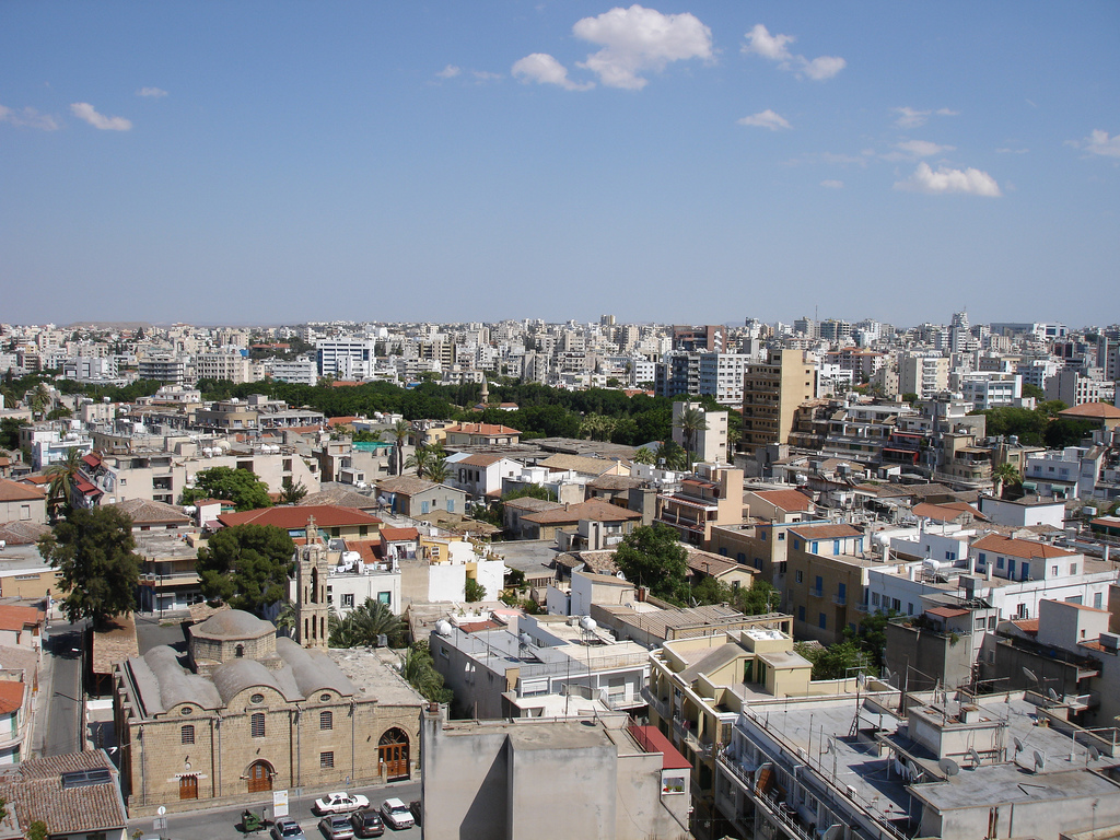 Nicosia view by day in July 2006